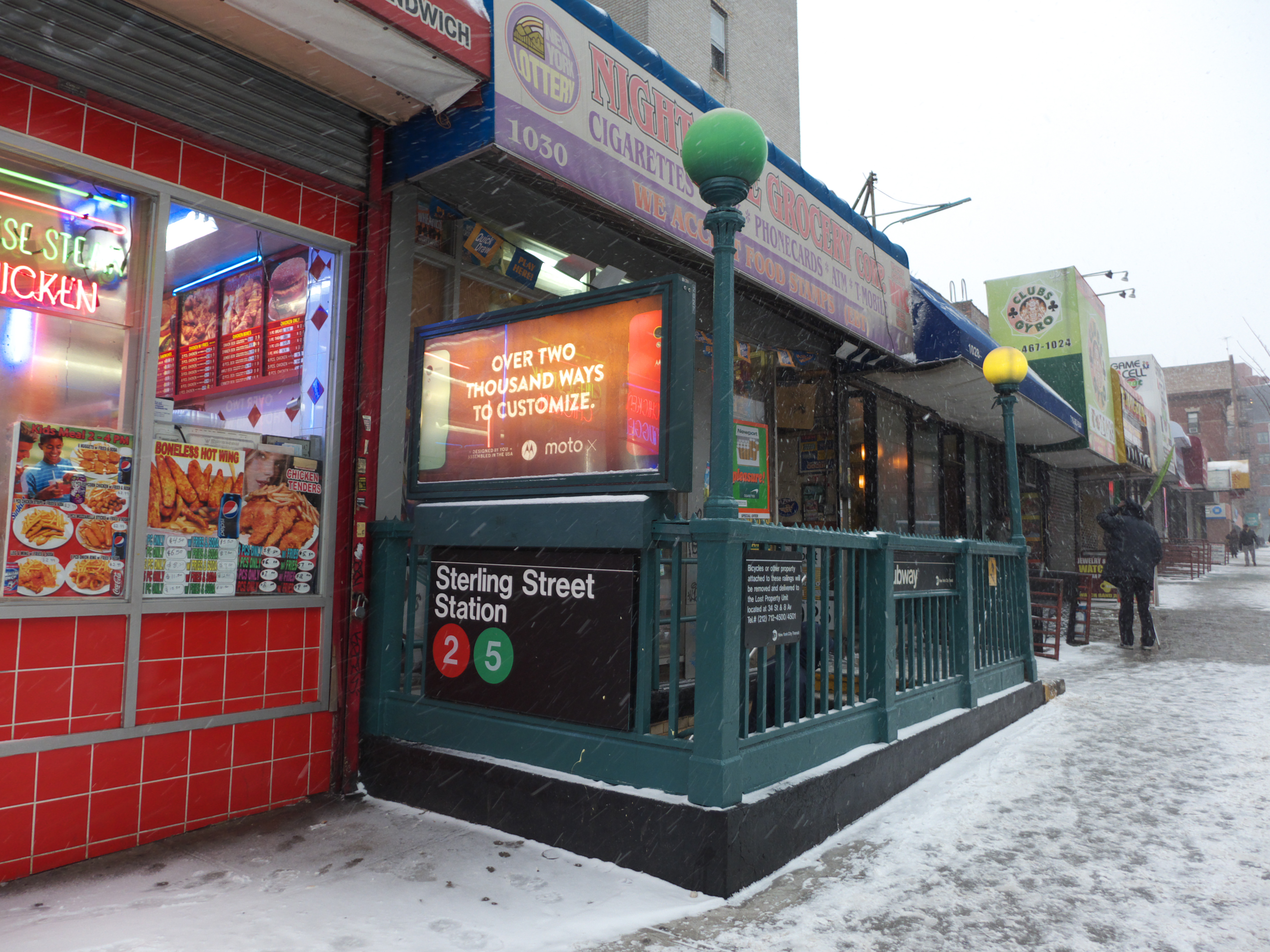 Entrance to Sterling Street (IRT Nostrand Avenue Line) subway station, Prospect-Lefferts Gardens, Flatbush, Brooklyn, NY.